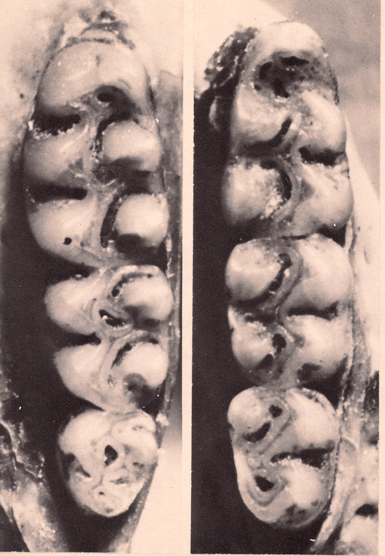 Molars of the holotype of Oryzomys antillarum (as Oryzomys palustris antillarum in the original).